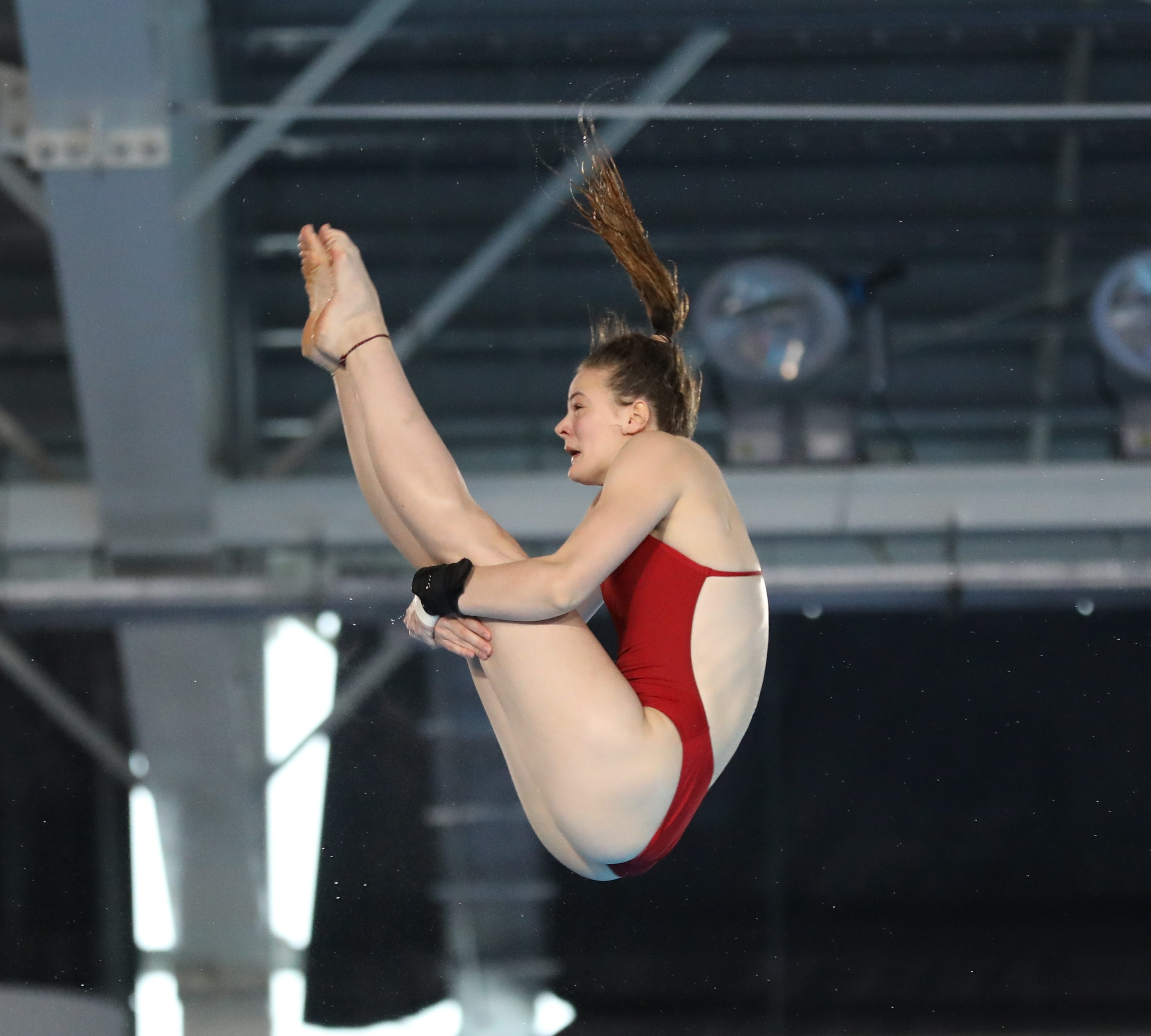 Diving, Girls 10m platform: Jump 1